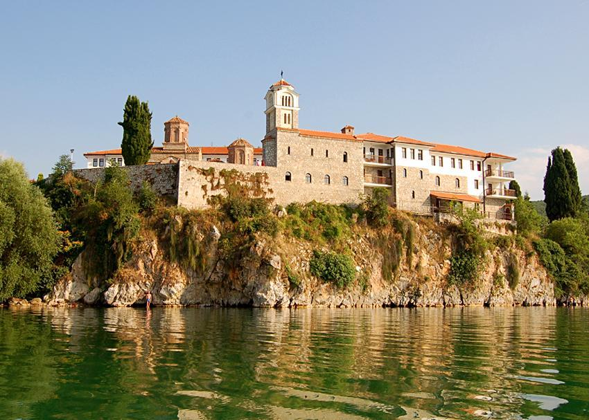 Medieval Orthodox Monastery of St. Naum on Lake Ohrid